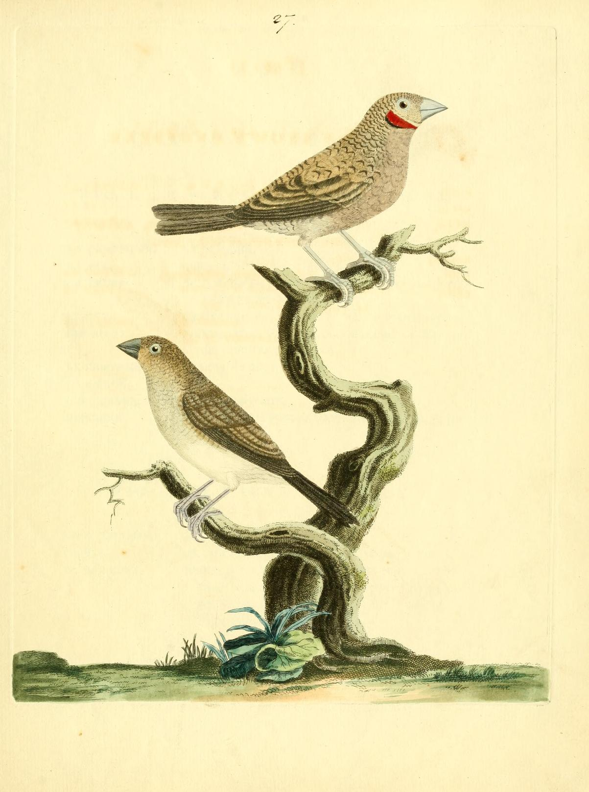 Plate showing Cut-throat finch (Amadina fasciata) and African Silverbill (Euodice cantans)